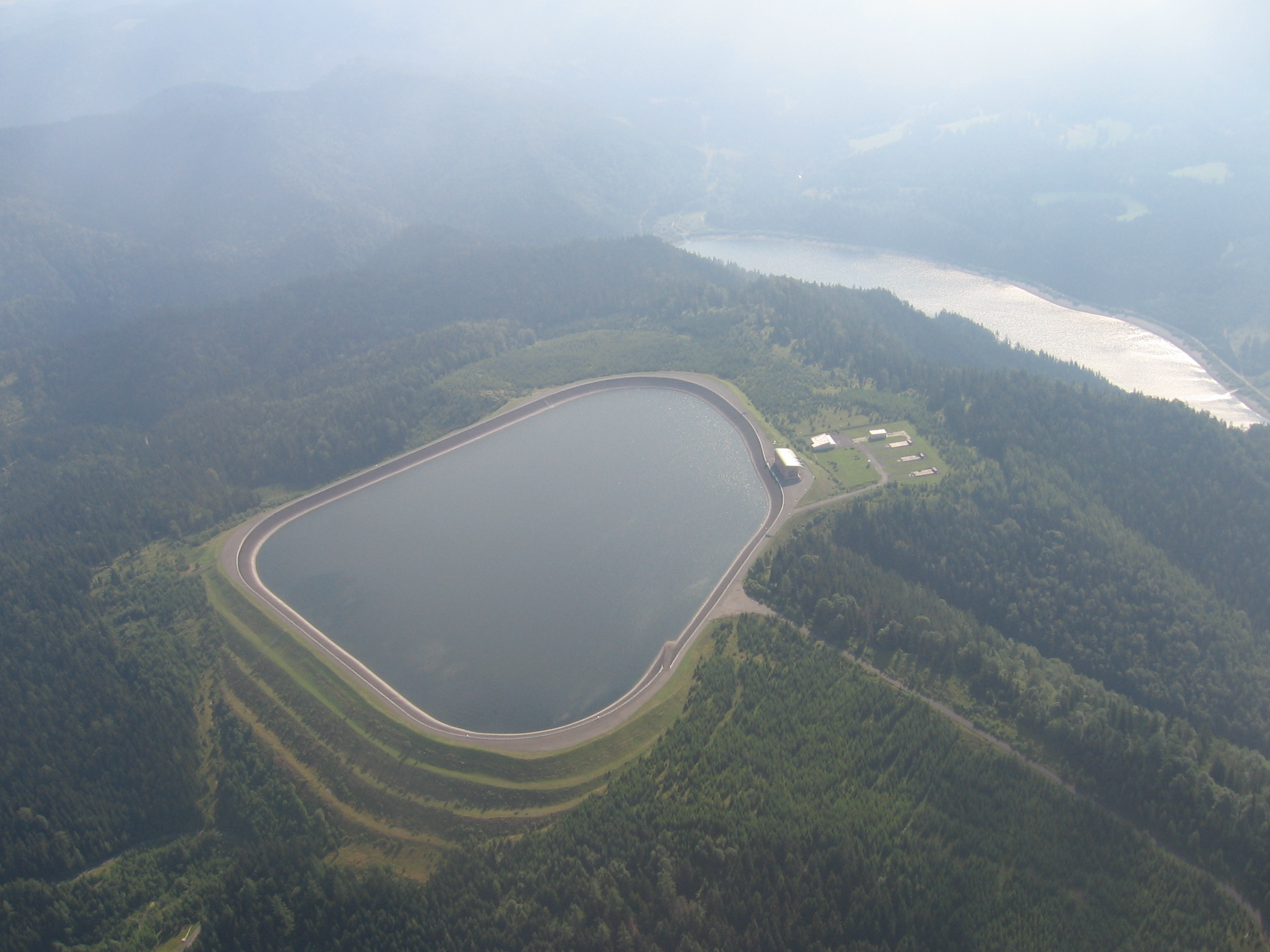 Photo of Čierny Váh Pumped-storage hydroelectricity dam in Slovakia, both upper and lower dam taken from airplane.